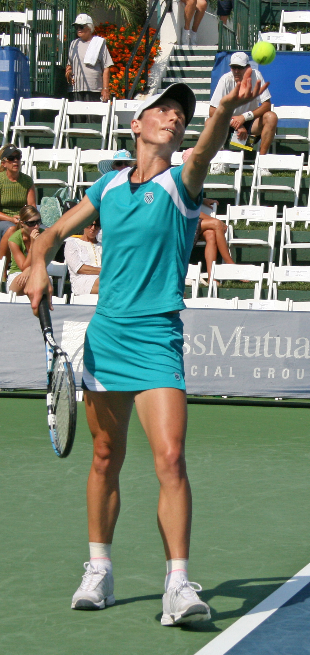 Cara Black serving at the 2007 Acura Classic.